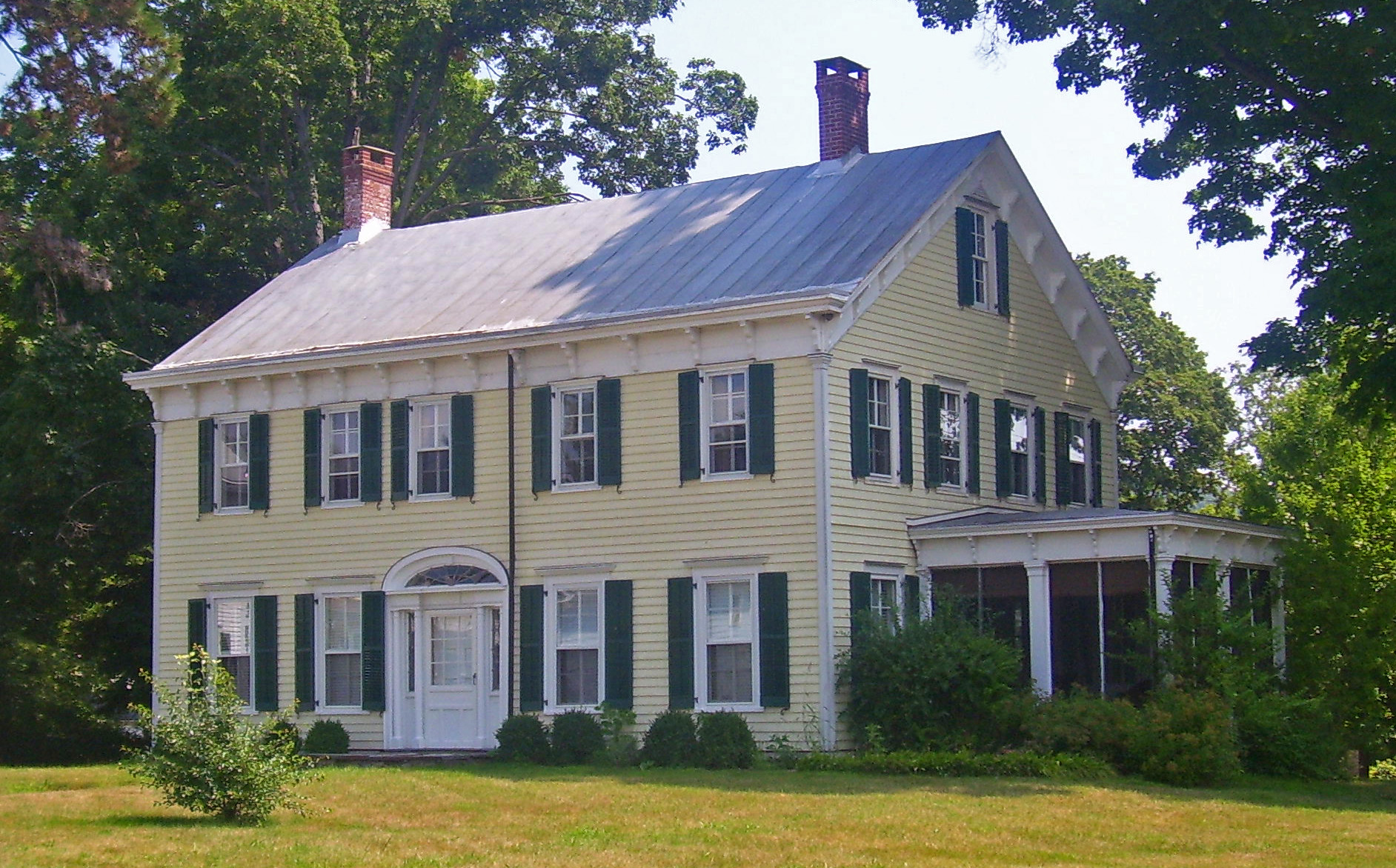 Judge William Seaman House, a contributing property to the Monroe, NY, USA, historic district